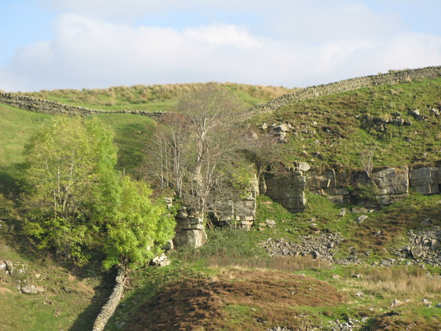 Old quarry near The Bog Farm